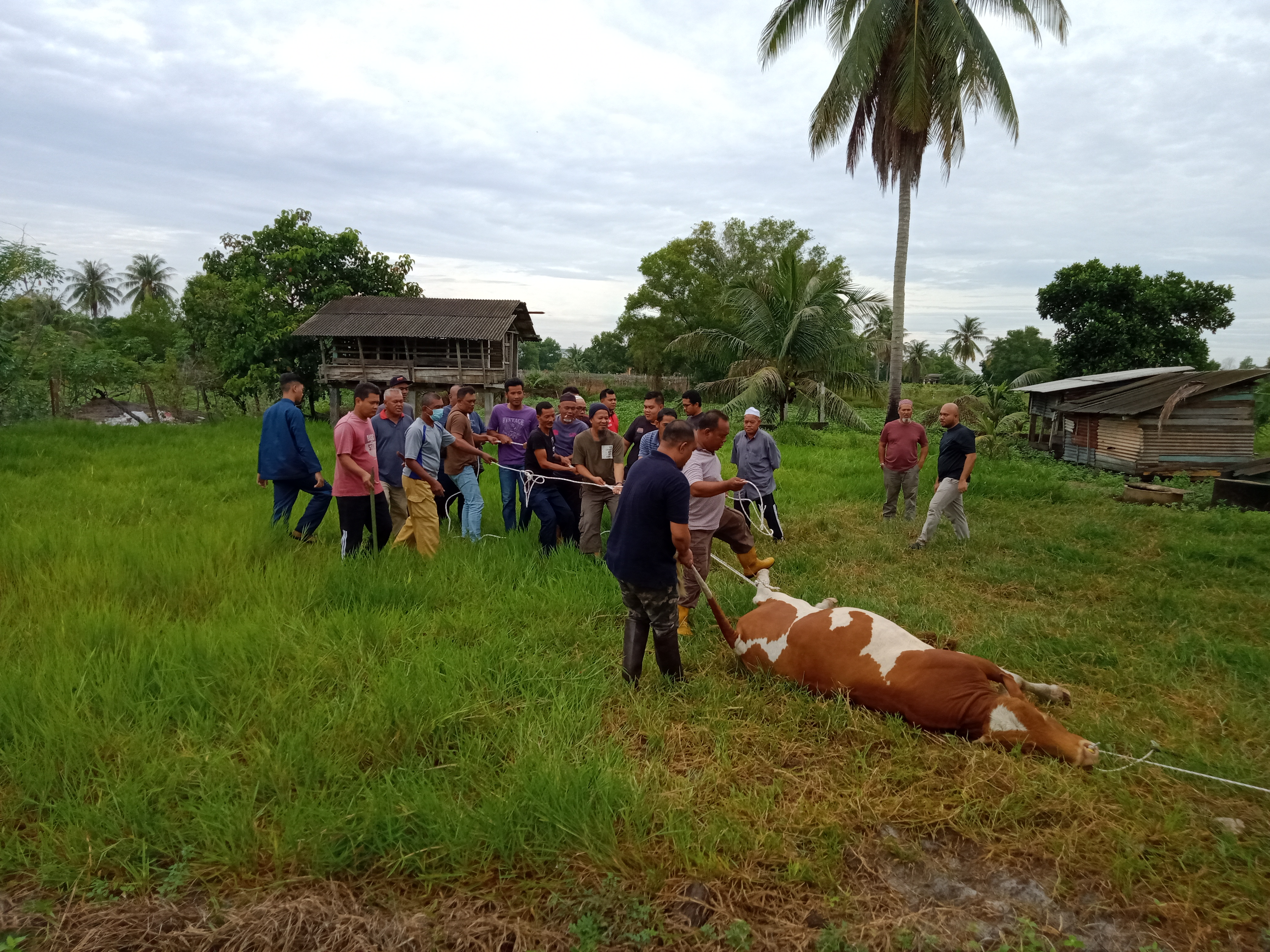 Sacrifice (Hebrew: קָרְבָּן) or qurban (Arabic: قربان) is the slaughter of certain animals on the Day of Aidiladha